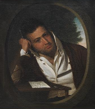 Self-portrait of José de Almeida Furtado (1778-1831), "o Gata", a Portuguese painter.